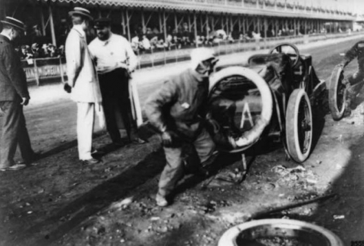 Ferenc Szisz changing a wheel on the Renault Type AK during 1906 French Grand Prix